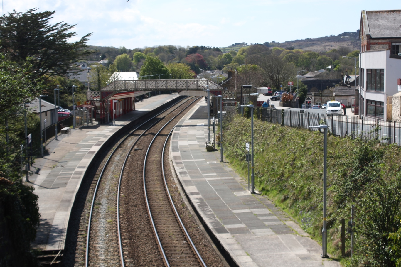 A view of Redruth station, looking from above the tunnel at the north end of the platforms.